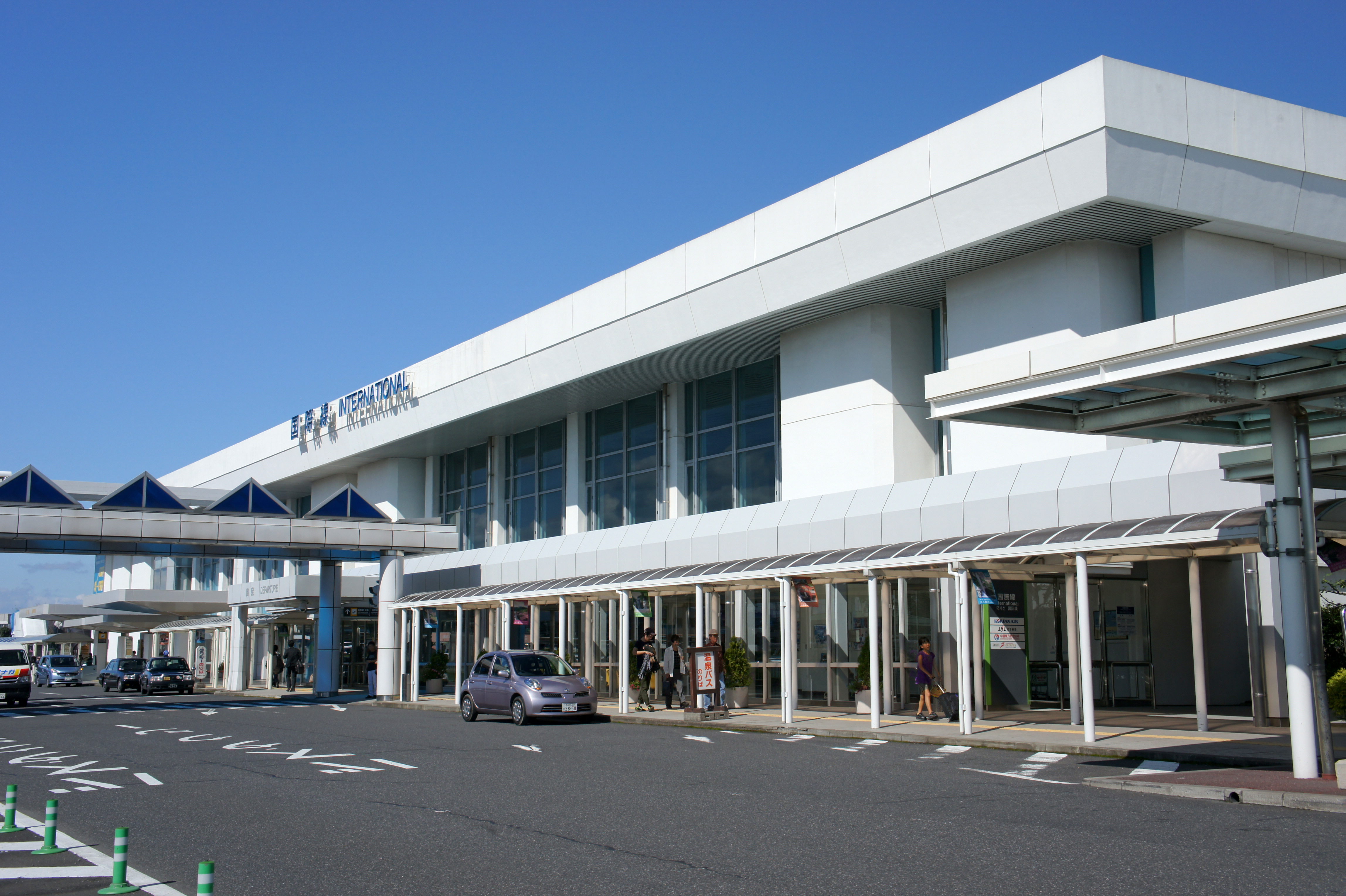 Kagoshima Airport in Kirishima, Kagoshima prefecture, Japan.